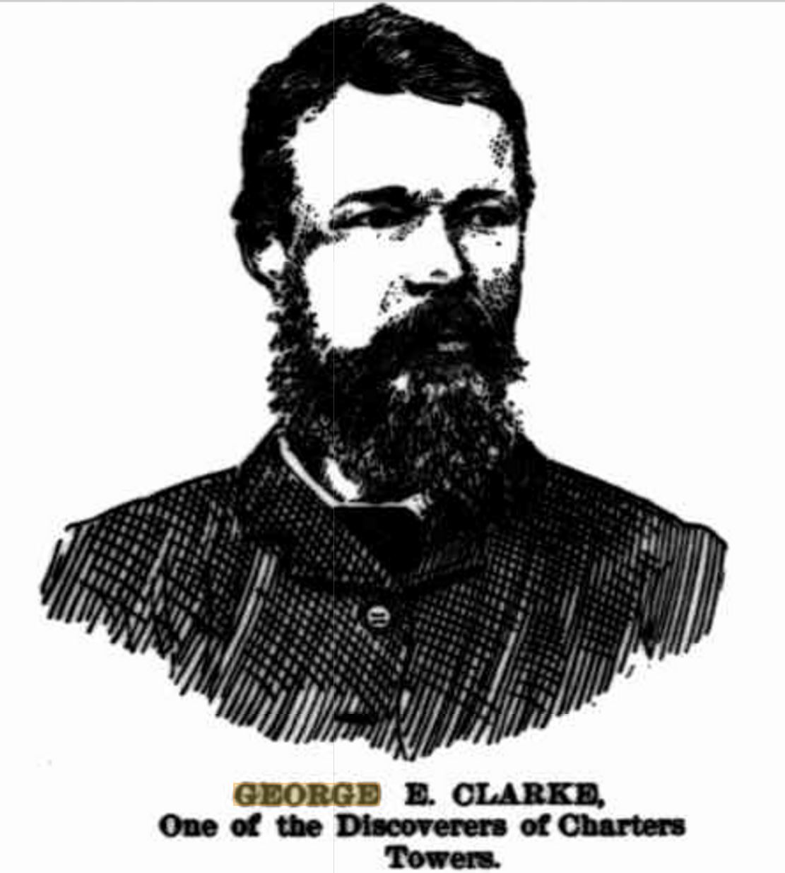 George E. Clarke, One of the Discoverers of Charters Towers